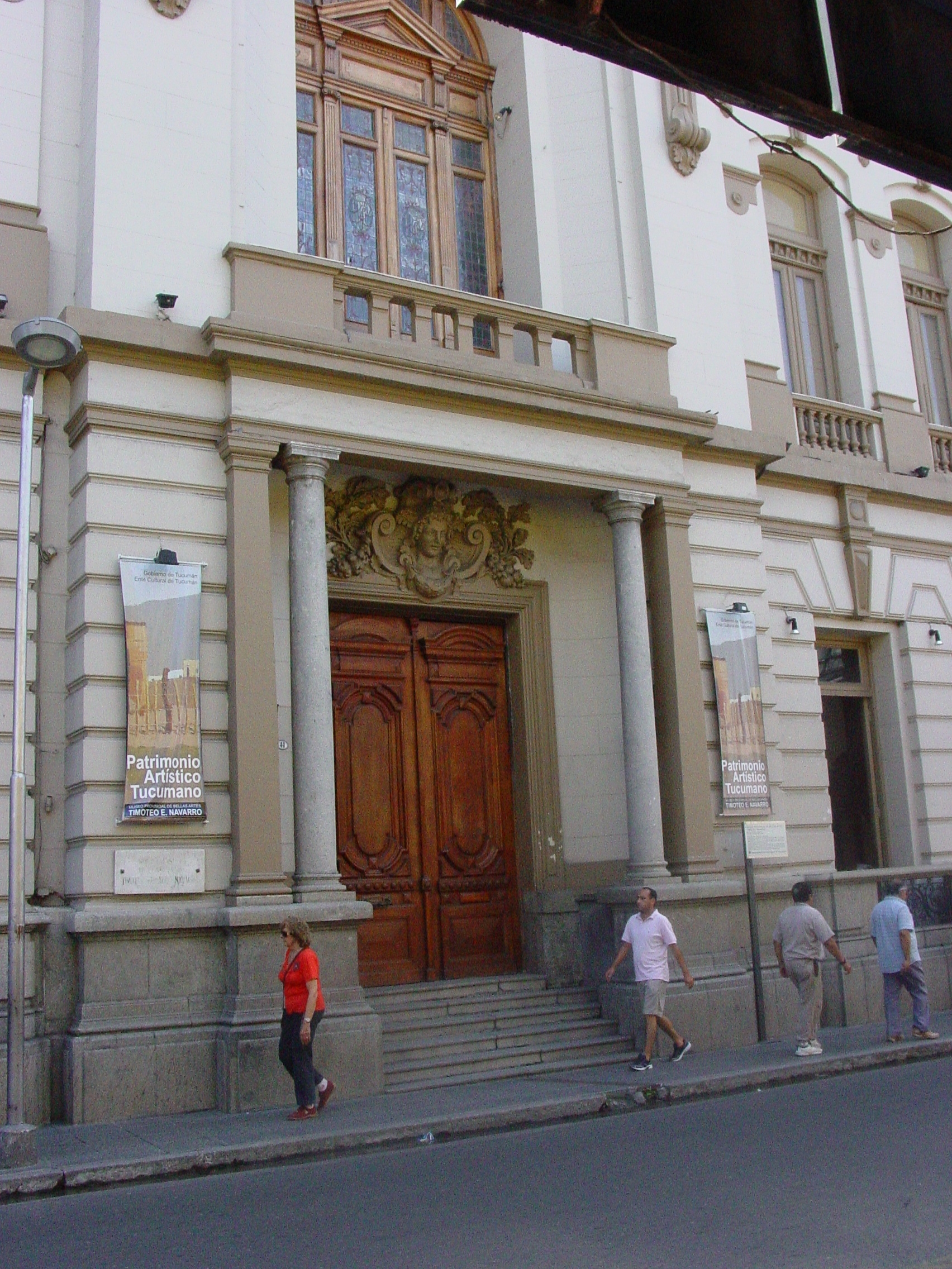 Timoteo Navarro Museum, in Tucumán, Argentina. Housed in a building originally designed by Belgian architect Albert Pelsmaeckers for the Bank of Tucumán and built in 1908.